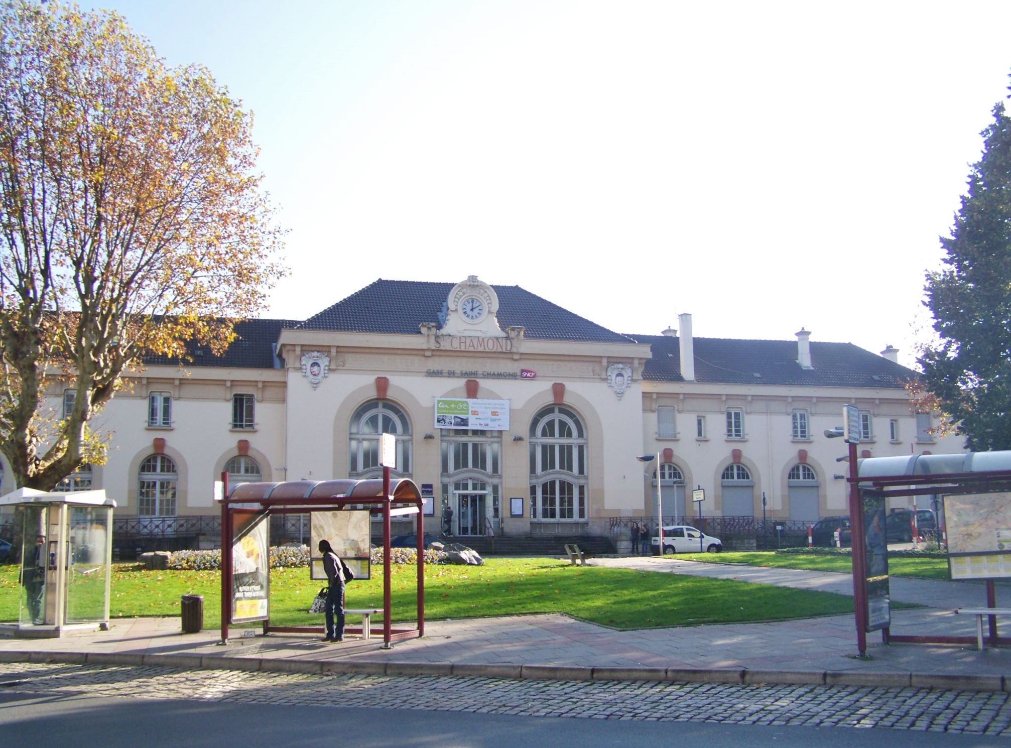 Sight of the building of the Saint-Chamond railway station, in Loire, France.